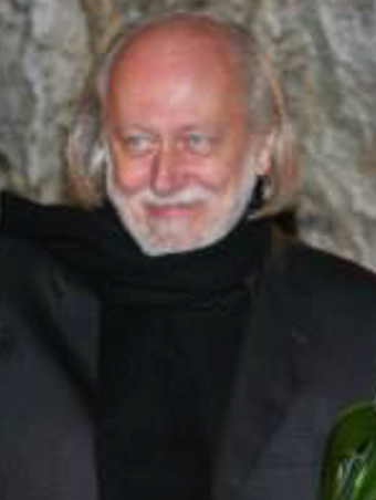 U.S. Ambassador Joseph A. #Mussomeli joined the organizers and guests in the presentation of the #Vilenica 2014 Prize ceremony, held in the Vilenica cave. The U.S. Embassy in Ljubljana supported the 29th Vilenica International Literary Festival, organized by the Slovene Writers' Association and the Vilenica Cultural Society.